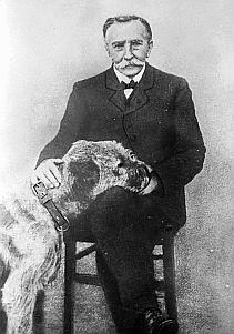 Charles Bourseul, né en 1829, a grandi à Douai et s'est éteint à Saint-Céré en 1912.